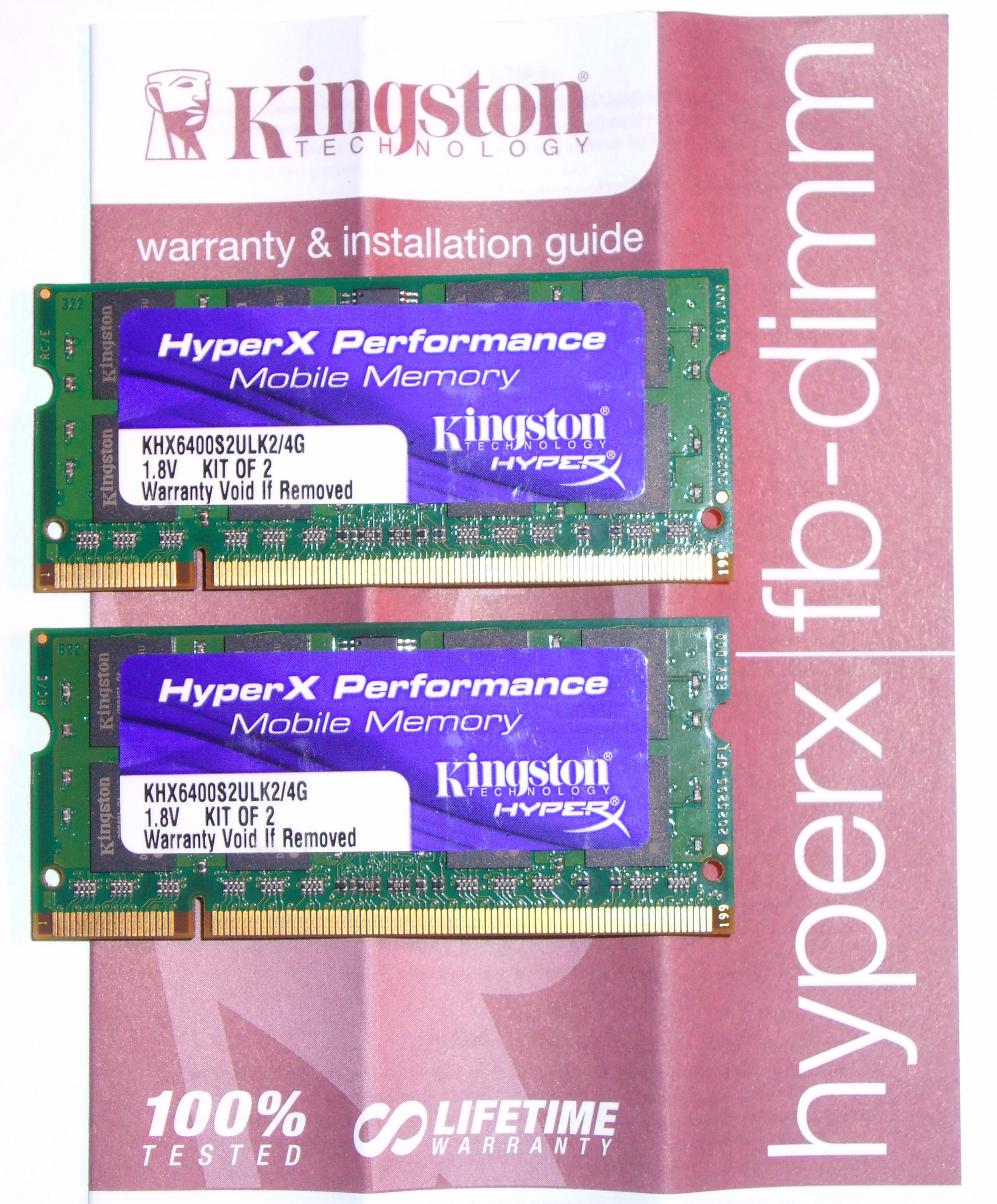 A pack of two Kingston DDR2 memory modules KHX6400S2ULK2/4G from HyperX line on top of the brochure with installation guide and lifetime warranty.